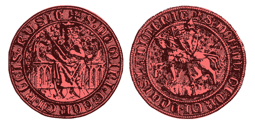 Seal of Yurii I Lvovych, king of Rus, prince of Ladimeria.